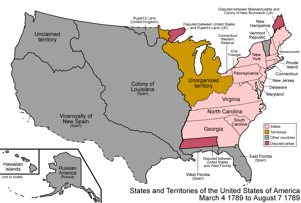 Map of the states and territories of the United States as it was from March 1789 to August 1789. On March 4 1789, the Constitution was ratified, though not all of the states had joined the union by then; to simplify this map, they are shown anyway. On August 7 1789, the Territory North West of the Ohio River (Northwest Territory) was organized.